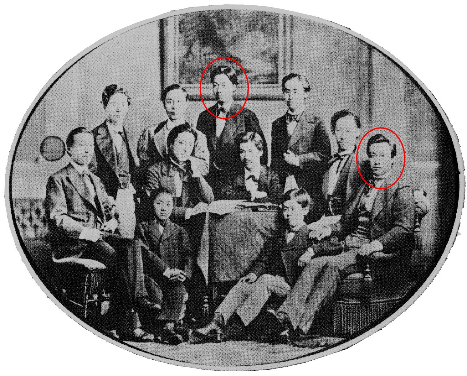 Group ogf Japanese surrounding Prince Kitashirakawa at Berlin